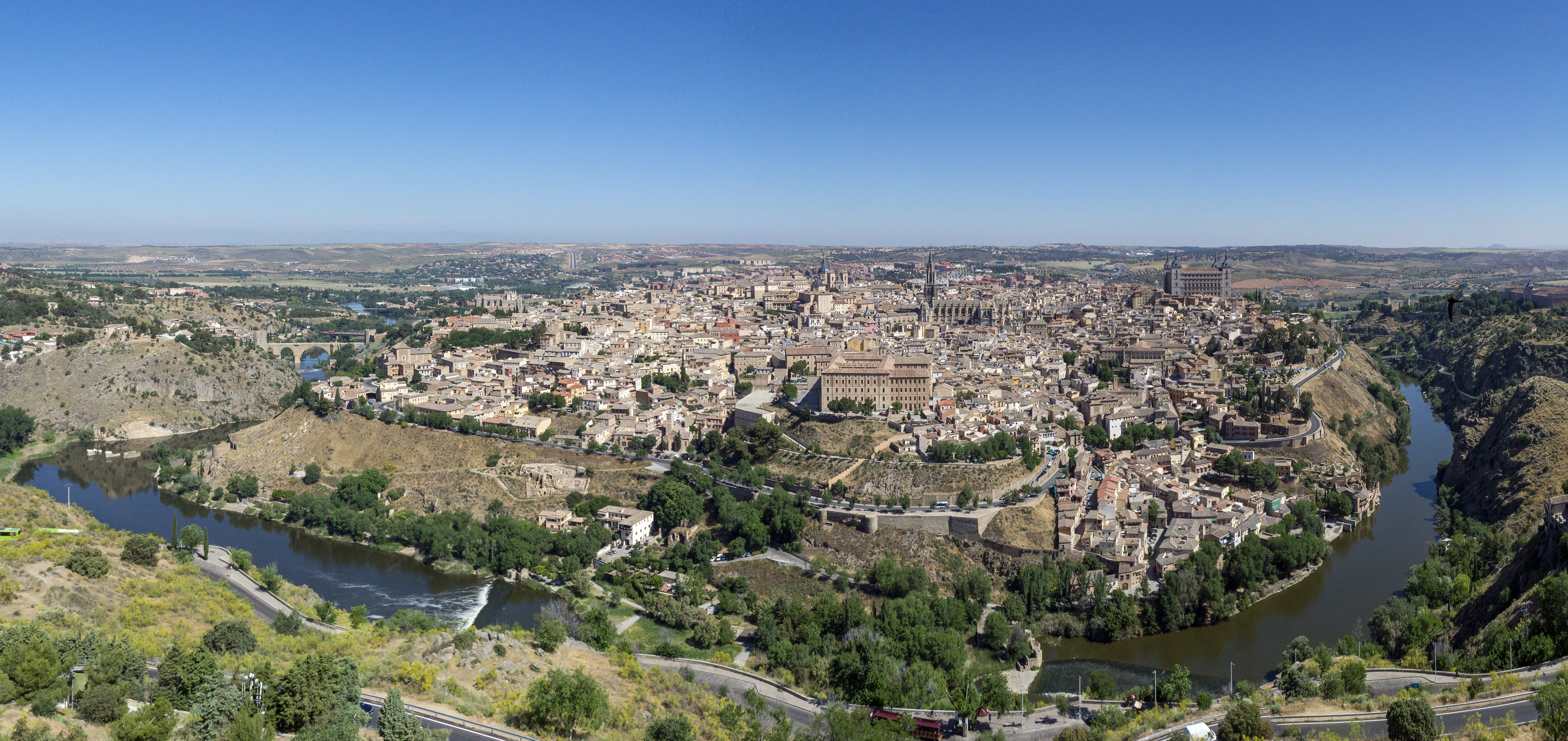 toledo spain aerial panorama dji phantom 2 sony a5000